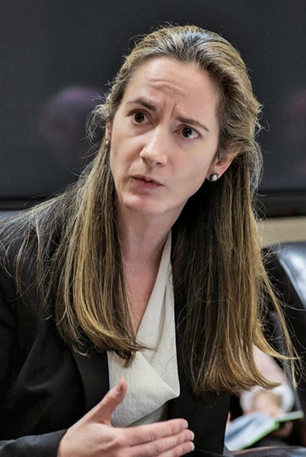 Avril Haines in the Situation Room at the White House in Washington, D.C.